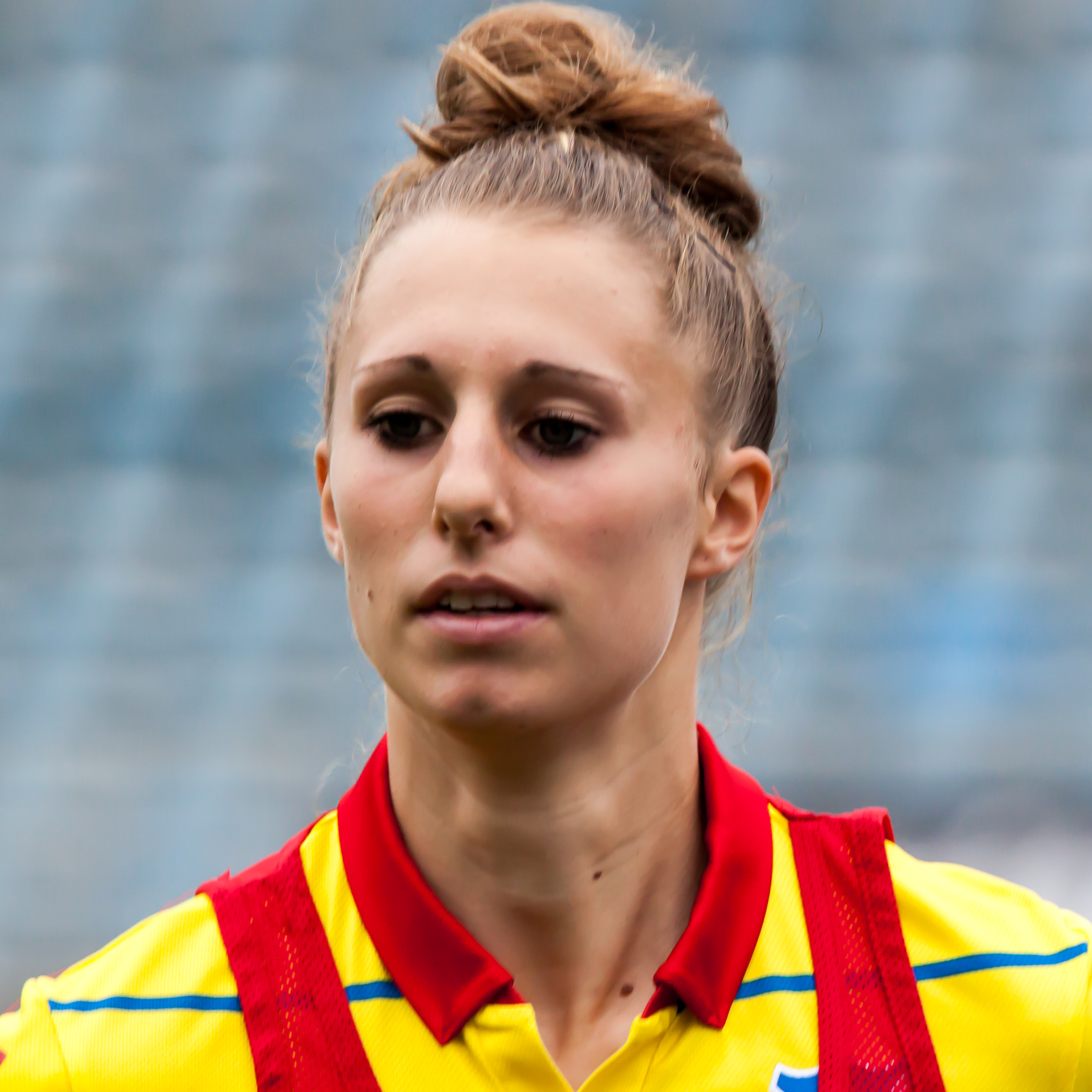 German Women Bundesliga soccer game: FF USV Jena vs. TSG 1899 Hoffenheim, 2014-10-11, at Ernst-Abbe-Sportfeld Jena.